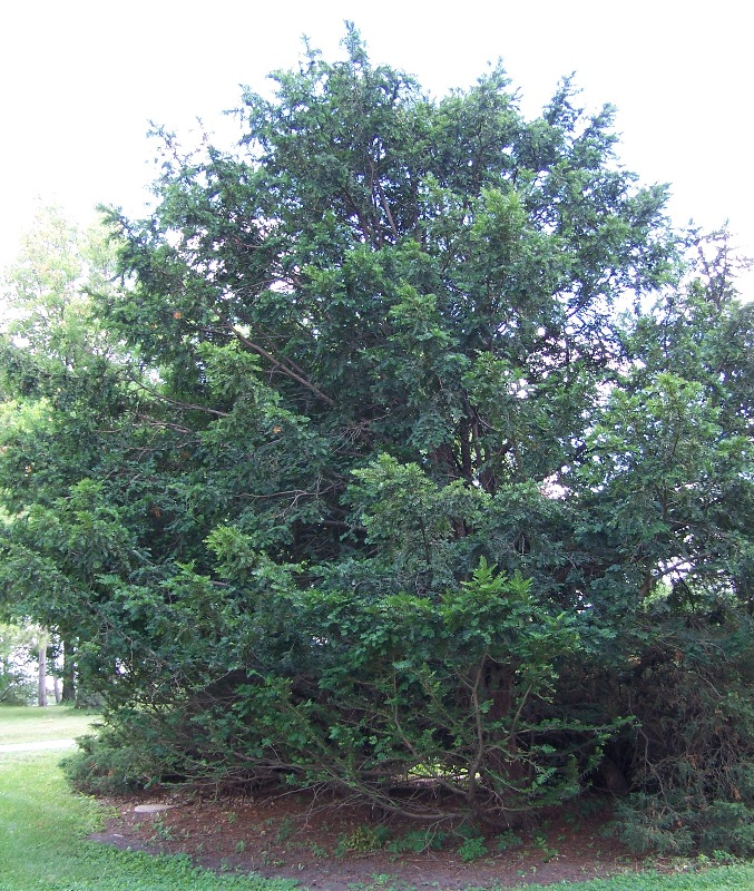 Taxus chinensis, Chinese Yew tree. Morton Arboretum acc. 1378-56-2.